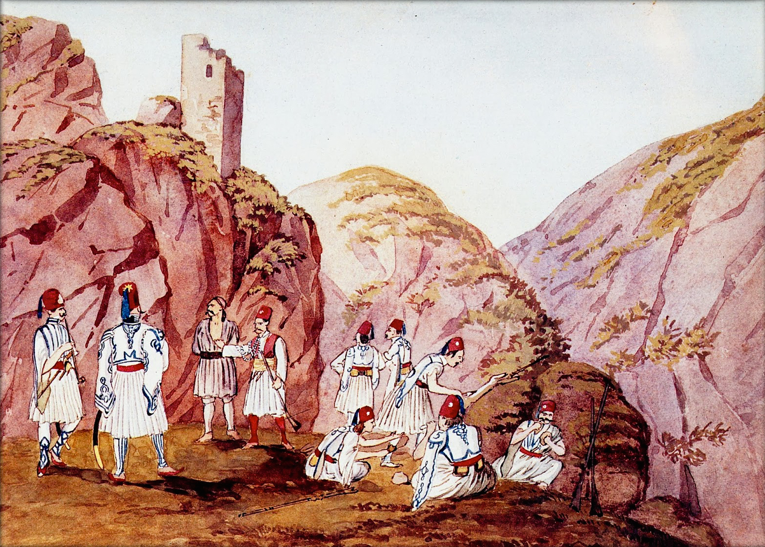 Mountain guard troops and auxiliary gendarme with captive